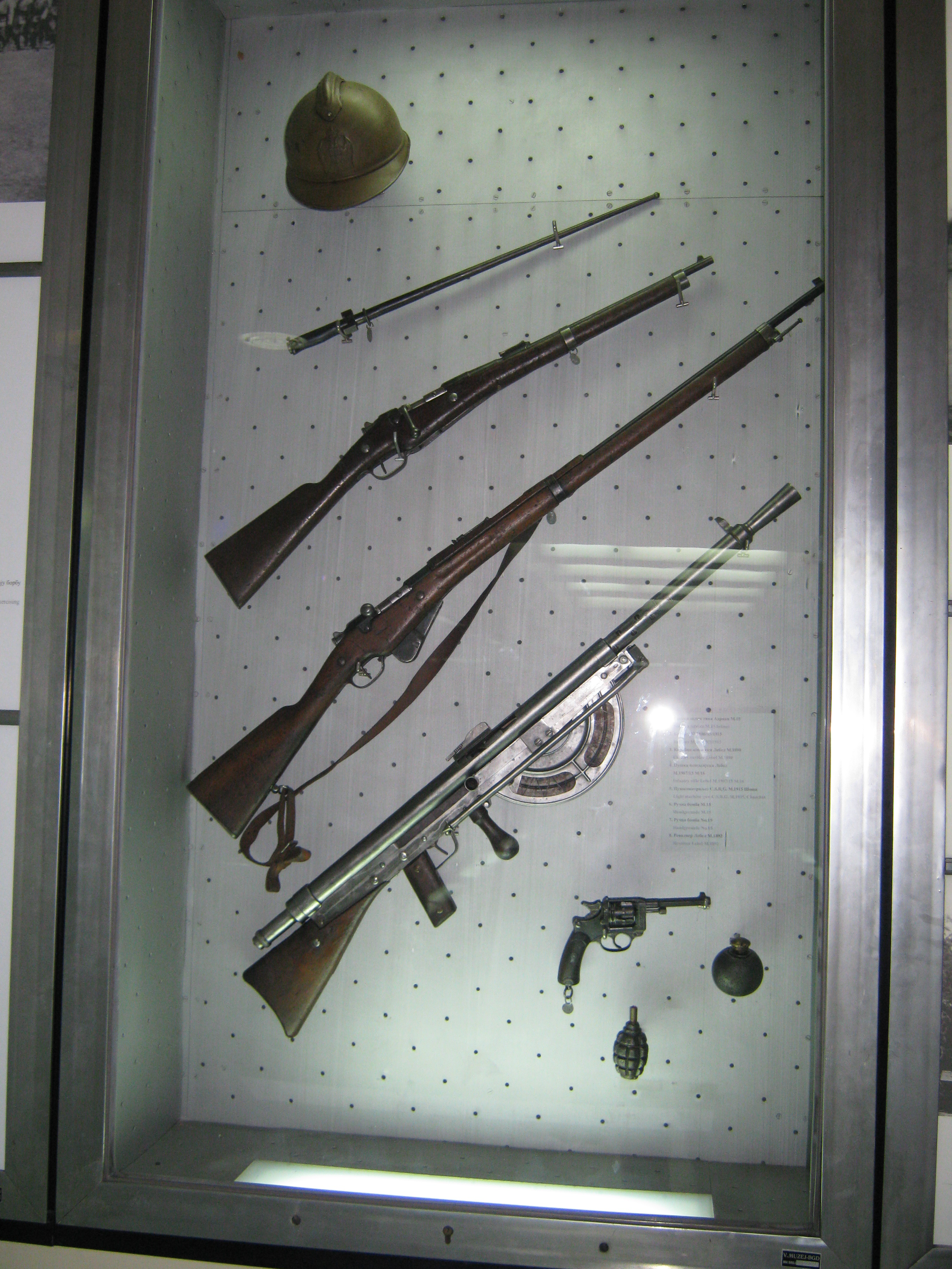 Serbian Adrian M.15 helmet Bayonet M.1886/93-1915 Cavalry carabine Berthier M.1890 Infantry rifle Berthier M.1907/15 M/16 Light machine gun C.S.R.G. M.1915 Chauchat Handgrenade M.15 Handgrenade No.15 Revolver Lebel M.1892 Photo taken in:Military museum Belgrade